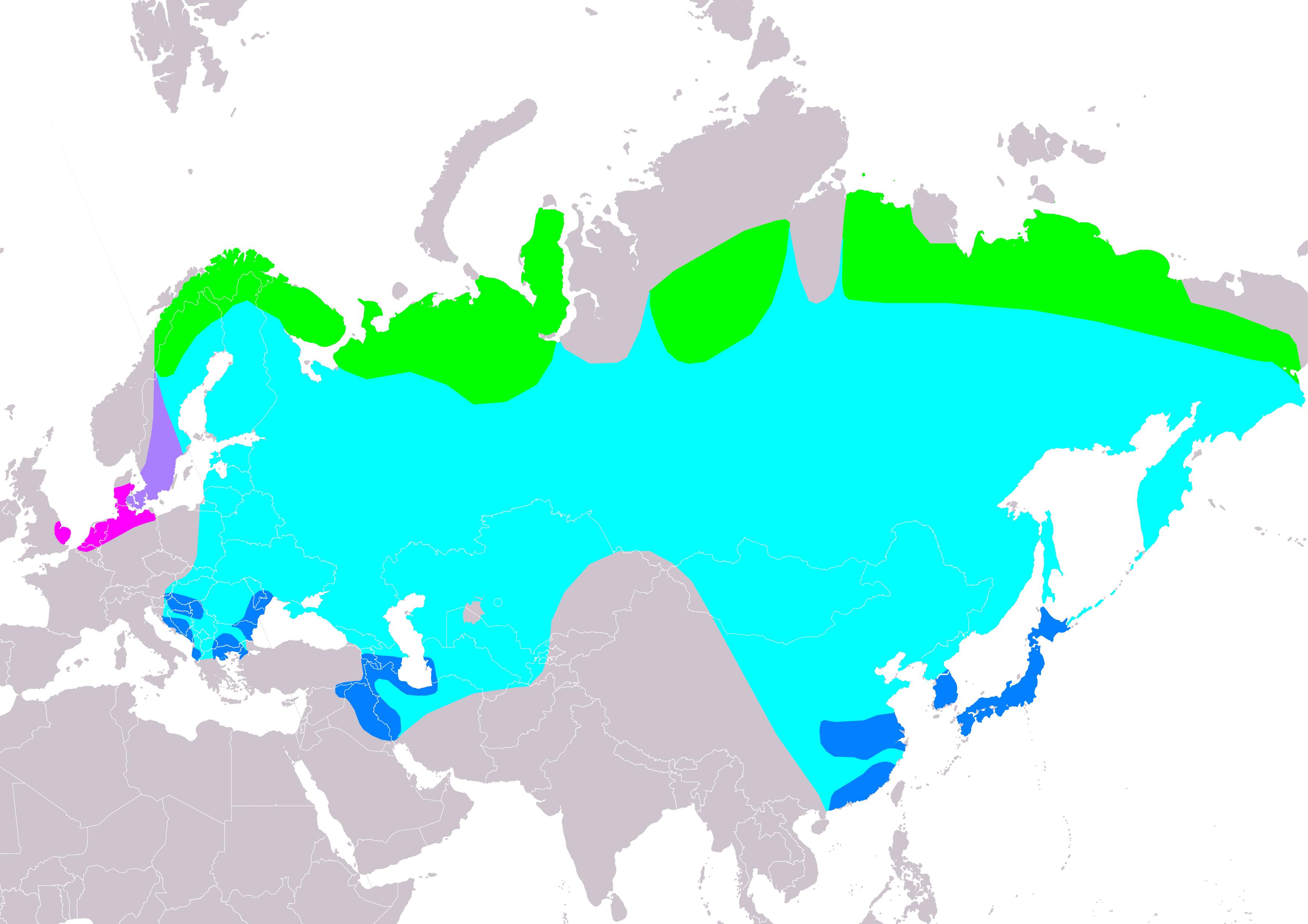 Distribution map of lesser white-fronted goose (Anser erythropus) according to IUCN version 2018.2 , Legend: Extant, breeding (#00FF00), Extant, passage (#00FFFF), Extant, non-breeding (#007FFF), Extant & Vagrant (seasonality uncertain) (#FF00FF), Possibly Extant (passage) (#AA7FFF)